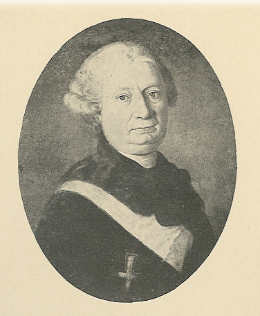 Ditlev Reventlow.